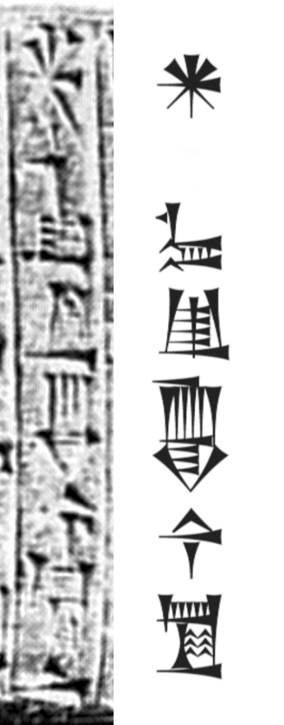 Tablet of Sin-Kashid king of Uruk (name)